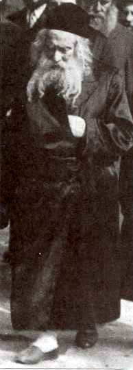 Rabbi Avrohom Mordechai Alter, the Imrei Emes